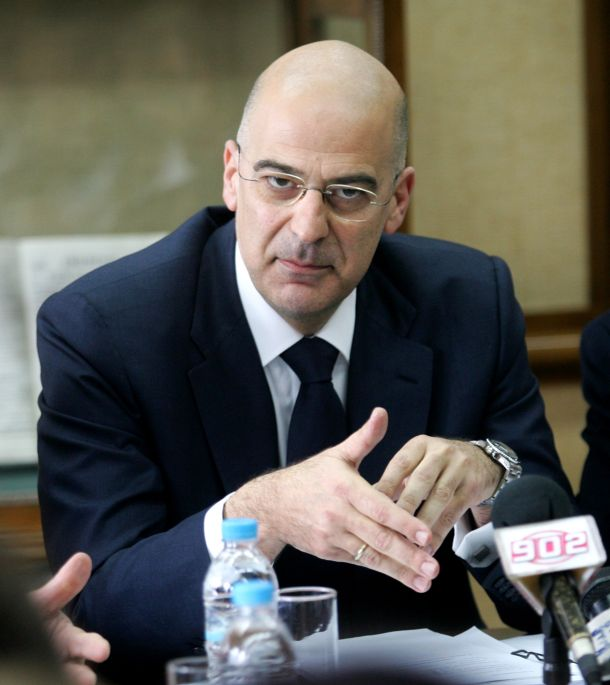 The Greek politician Nikos Dendias.